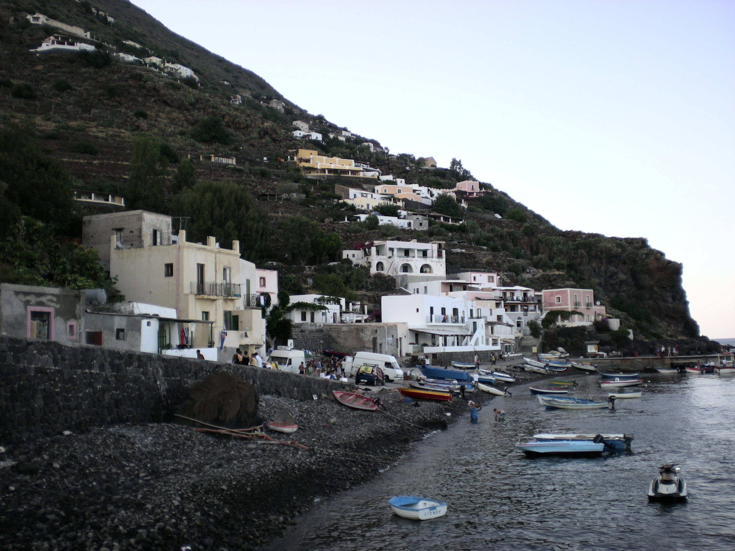 Alicudi Harbour